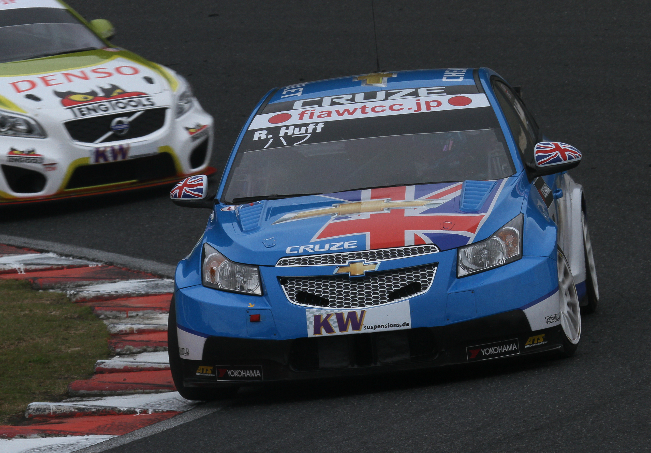 World Touring Car Championship 2010 Race of Japan: Robert Huff (Chevrolet) during the 2nd free practice session on Saturday.